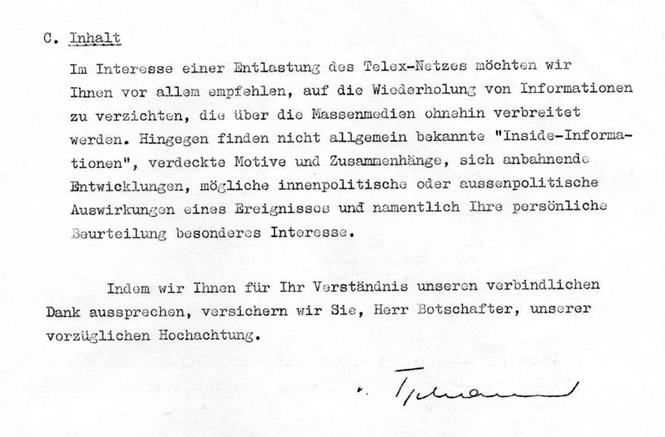 office circular by Benedikt von Tscharner, foreign ministry of Switzerland